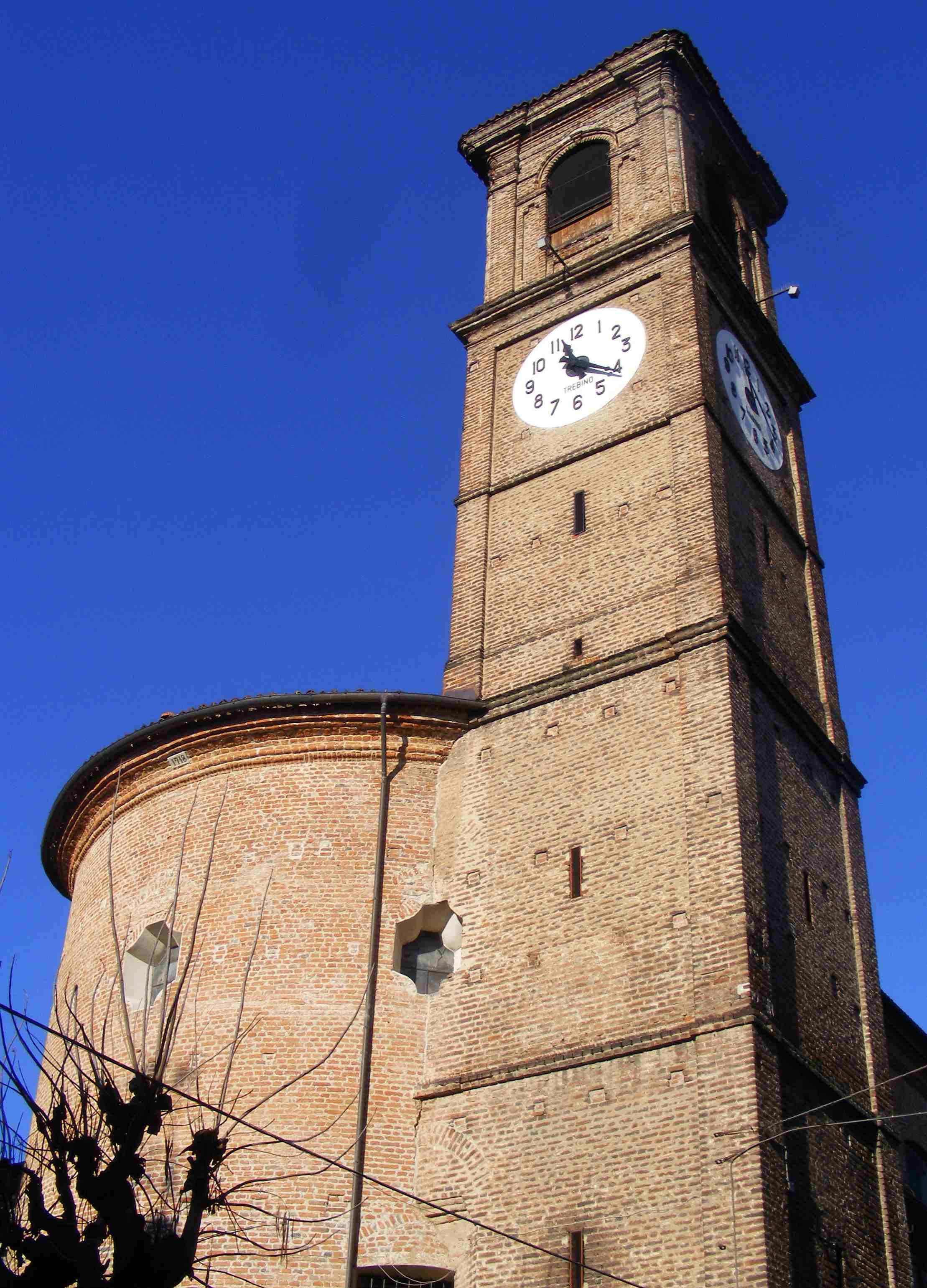 Brandizzo (TO, Italy): bell tower